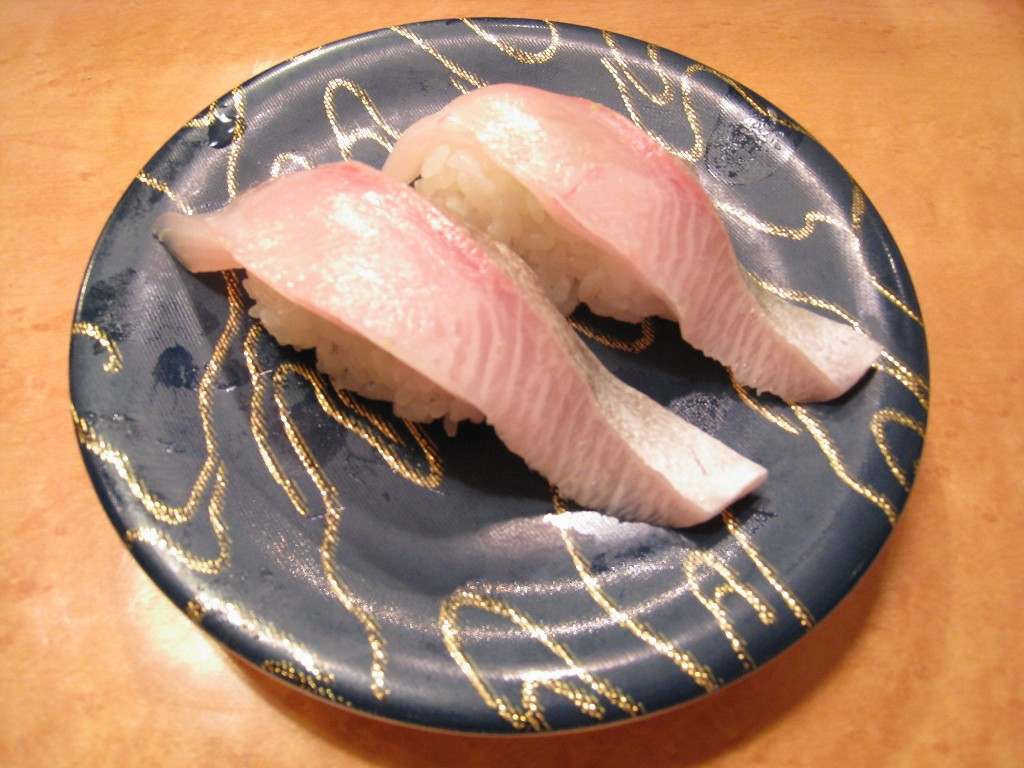 Nigiri-zushi of Oratosquilla oratoria (カンパチ kanpati)